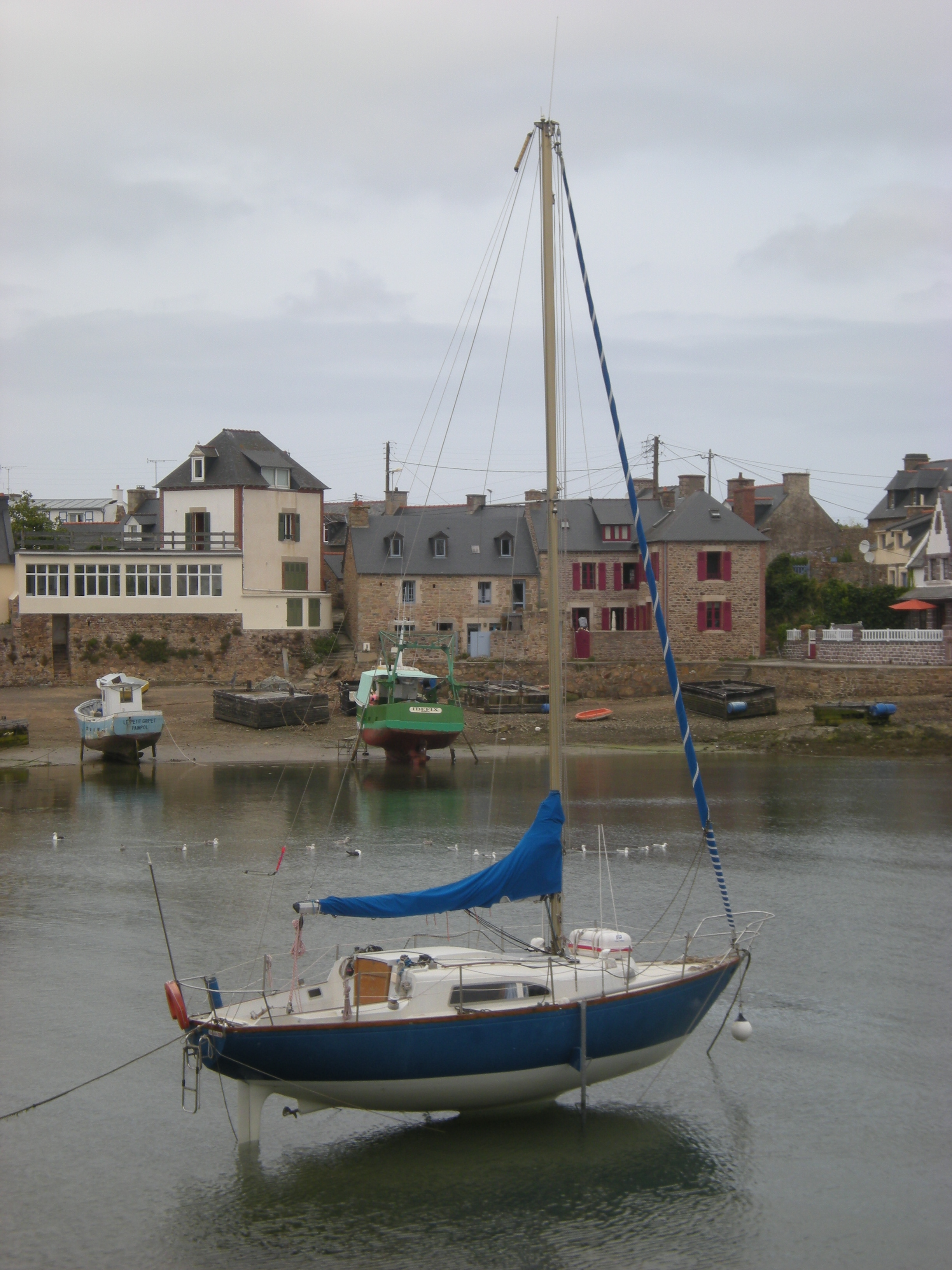 Arpège, 30' sailing boat in Loguivy-de-la-Mer harbour. (Ploubazlanec)